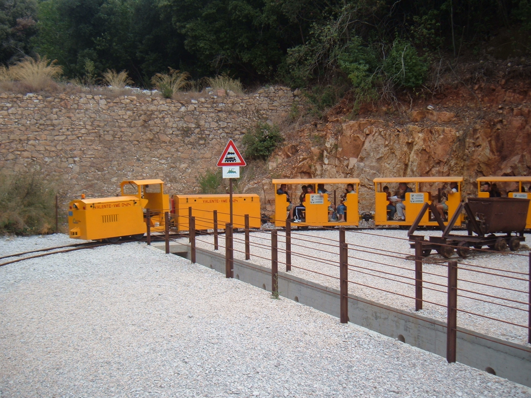 Parco minerario di San Silvestro, located in Campiglia Marittima, Tuscany, Italy. This train is actually used by tourists during the visit of the Temperino mine